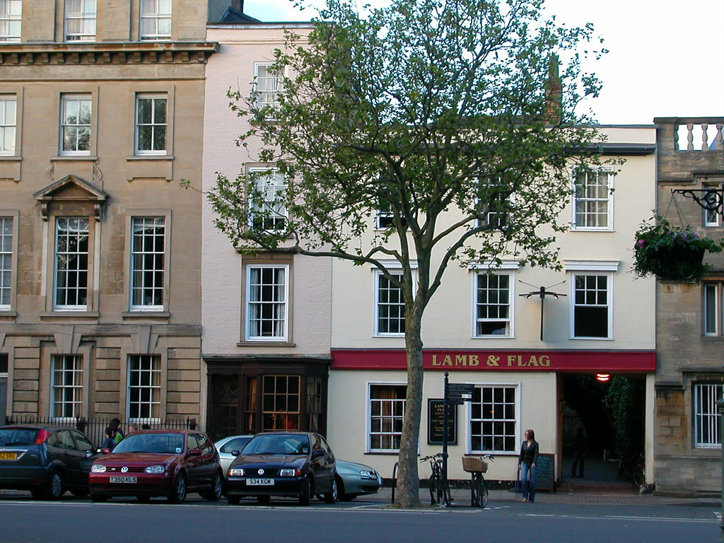 Photo of the Lamb and Flag pub in Oxford, England.